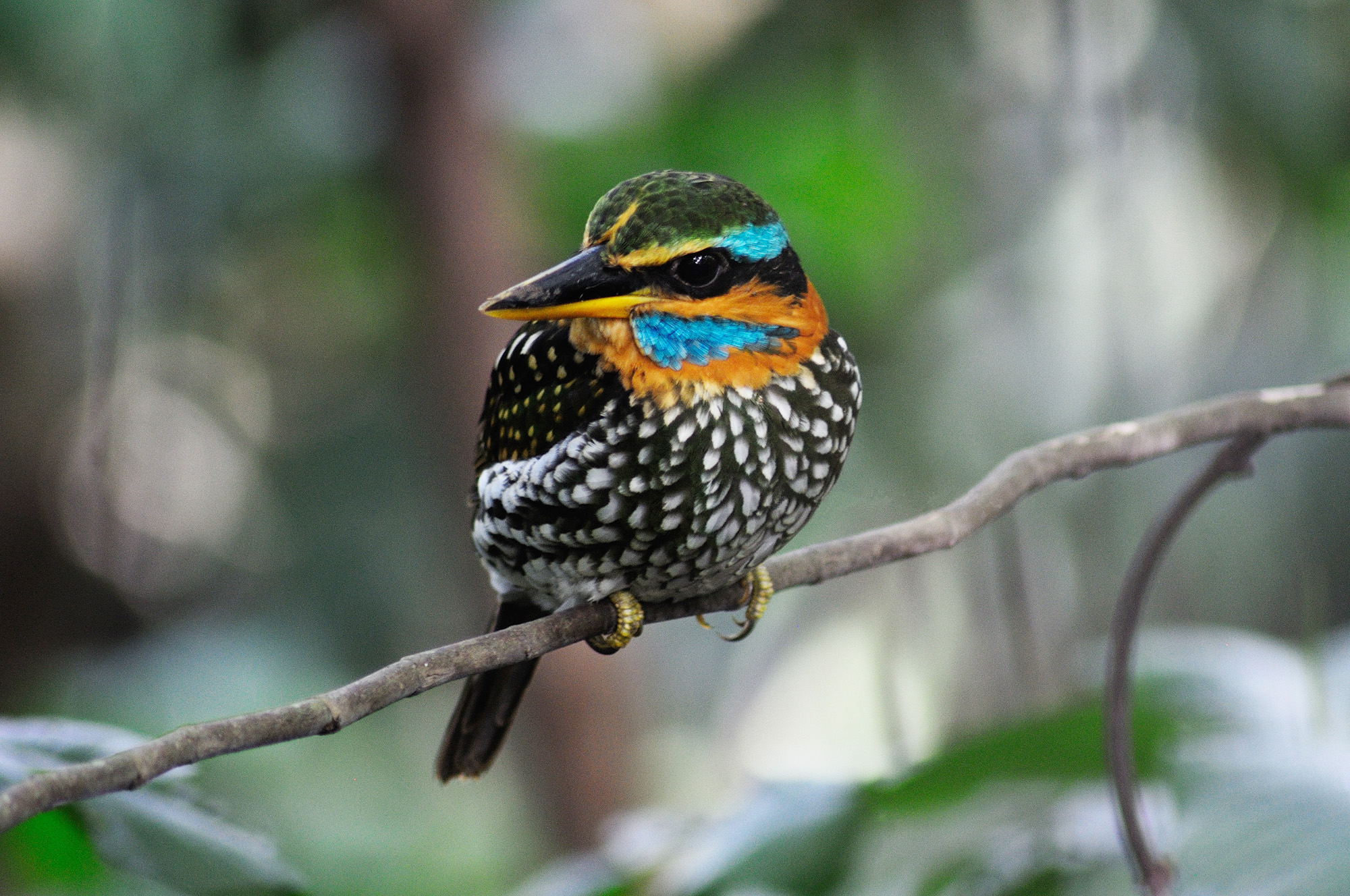 A male Spotted-wood Kingfisher at La Mesa Eco Park, Quezon City, Philippines.